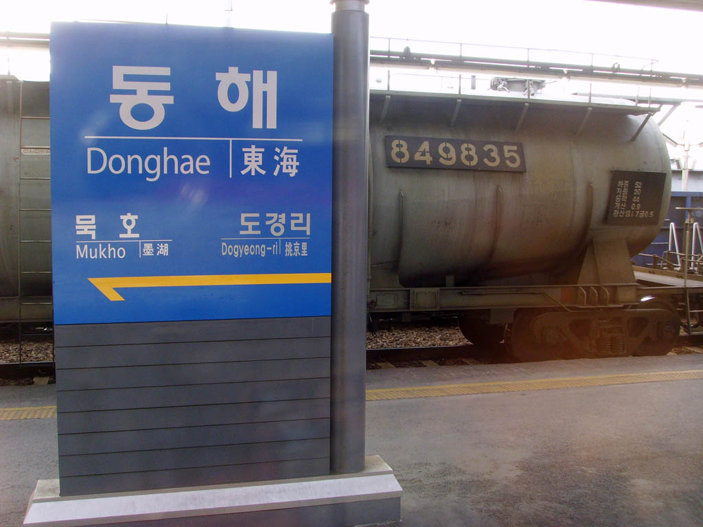 Yeongdong, Samcheok, Mukhohang, Bukpyeong Line Donghae Station